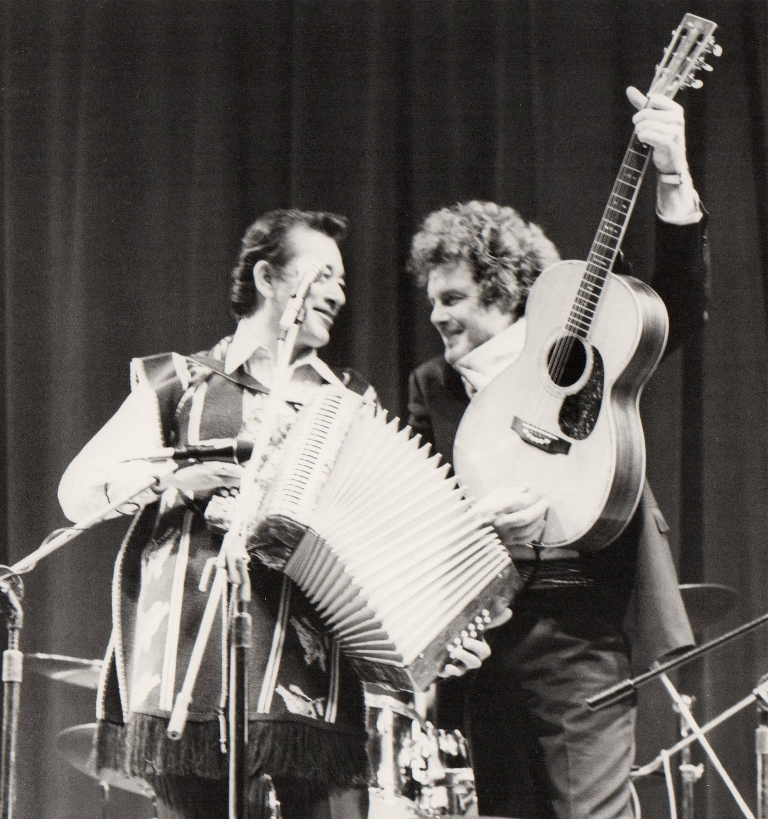 Flaco Jimenez and Peter Rowan (musicians) on stage at Farnham, U.K., 1985 (photograph by Tony Rees)